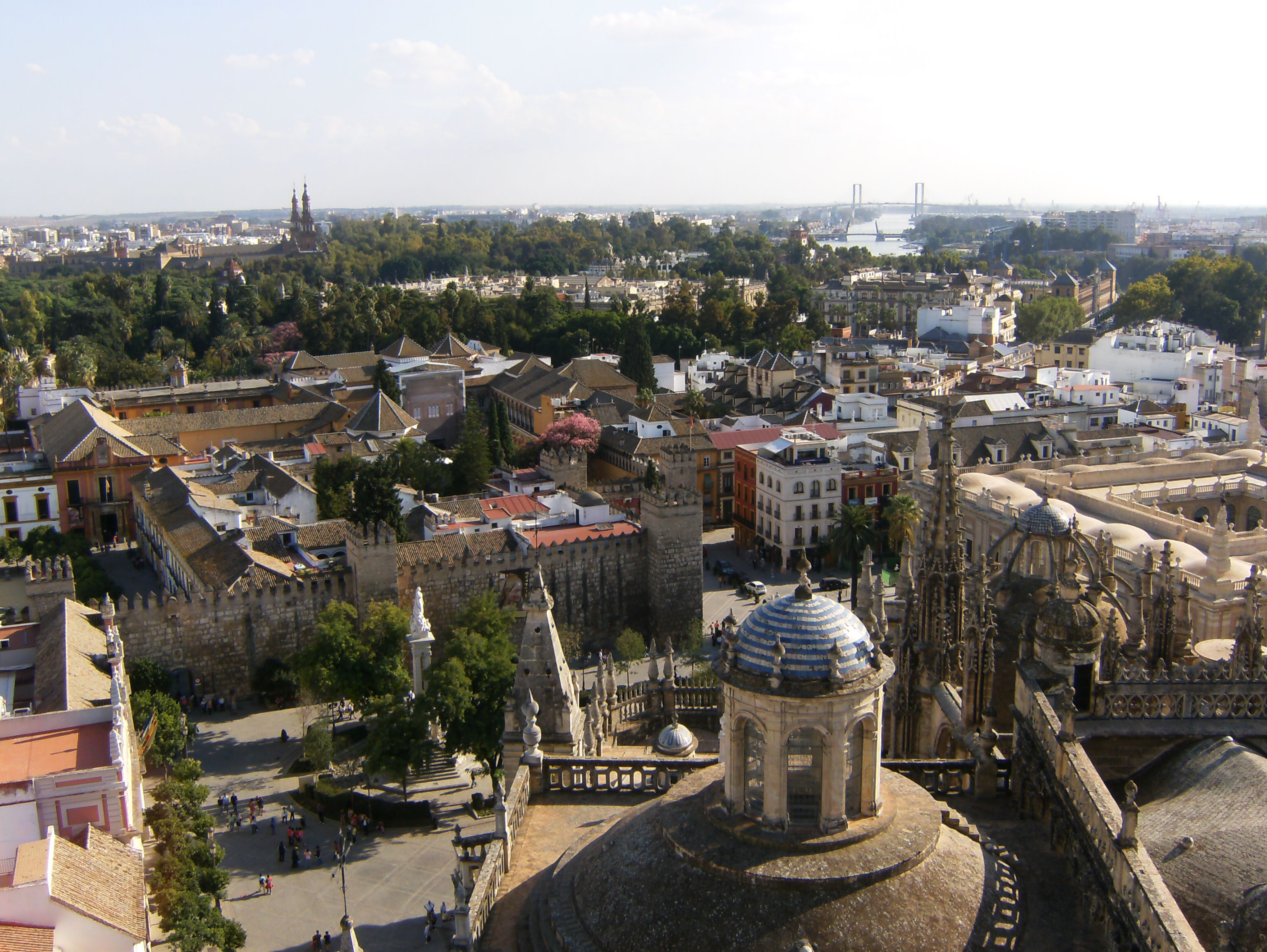 Sevilla saw from Giralda